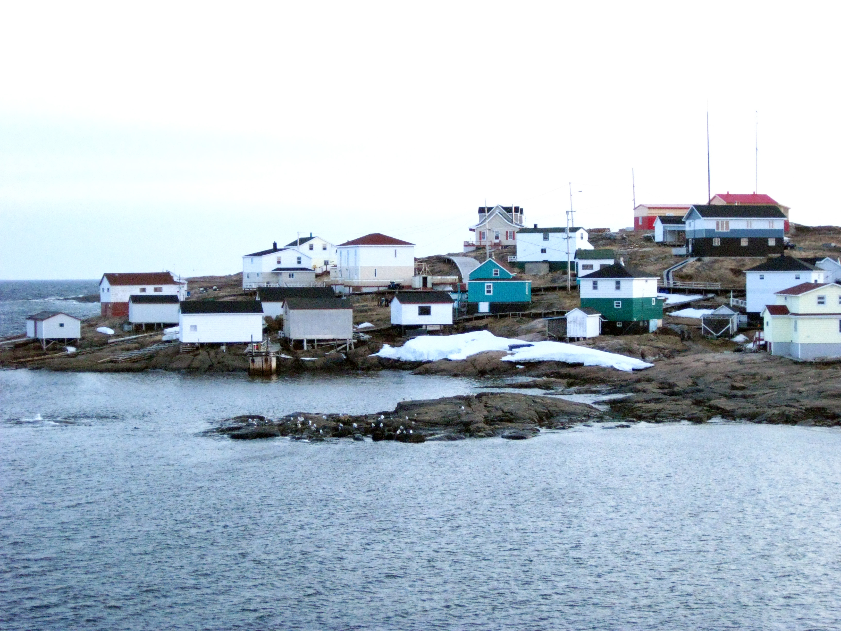 Harrington Harbour, picture taken from the Nordik Express.